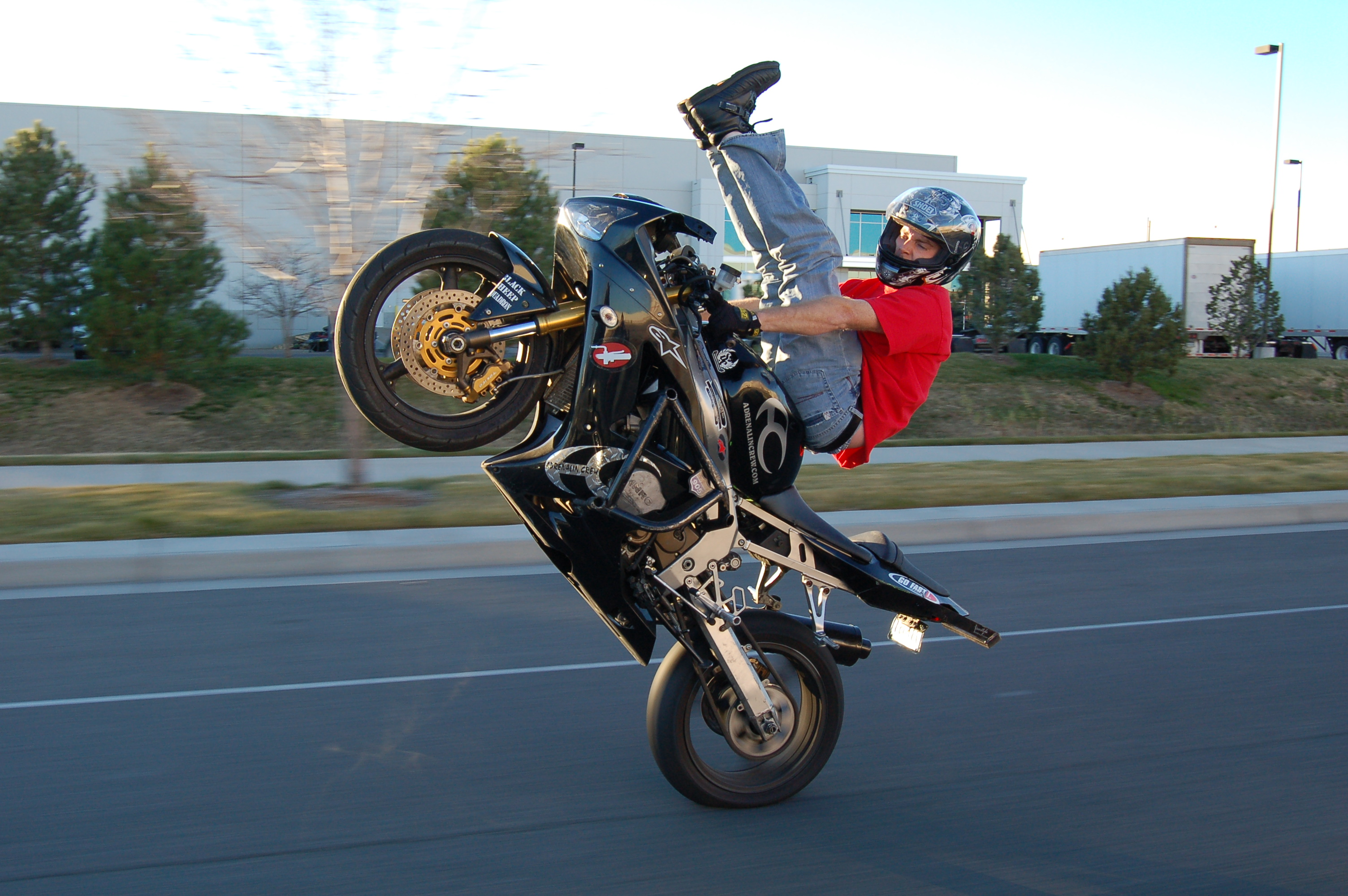 Adrenaline Crew member Greg McGlynn doing a "highchair wheelie" in Denver Colorado.